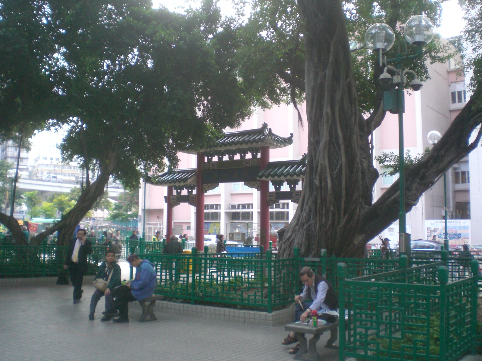 油麻地 油麻地社區中心休憩花園 榕樹 上海街出口